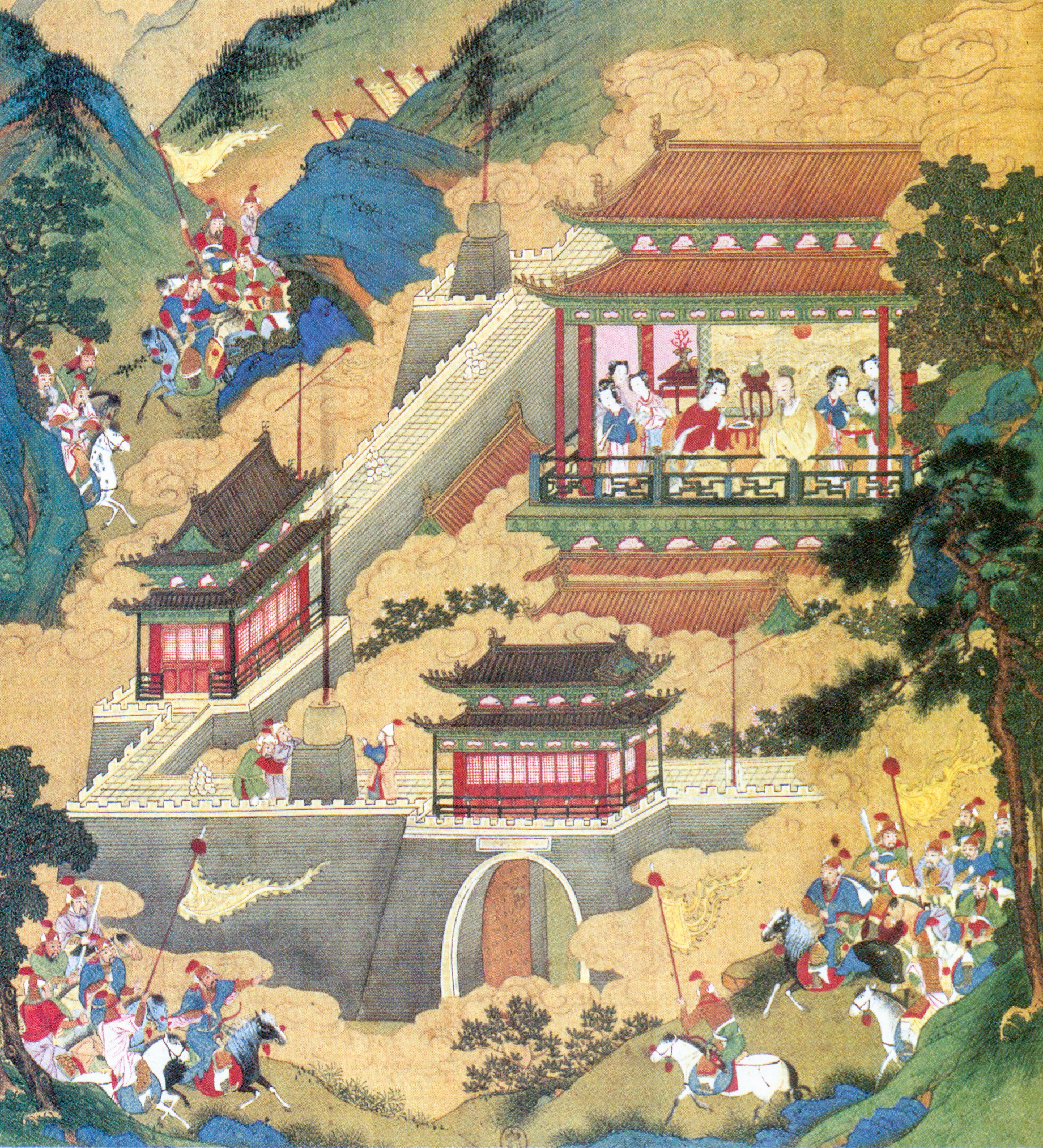 History of King Yu